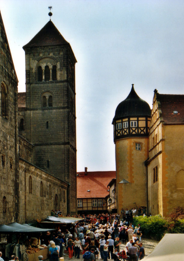 Image shows the festival "Kaiserfruehling" 2002 on castle Quedlinburg